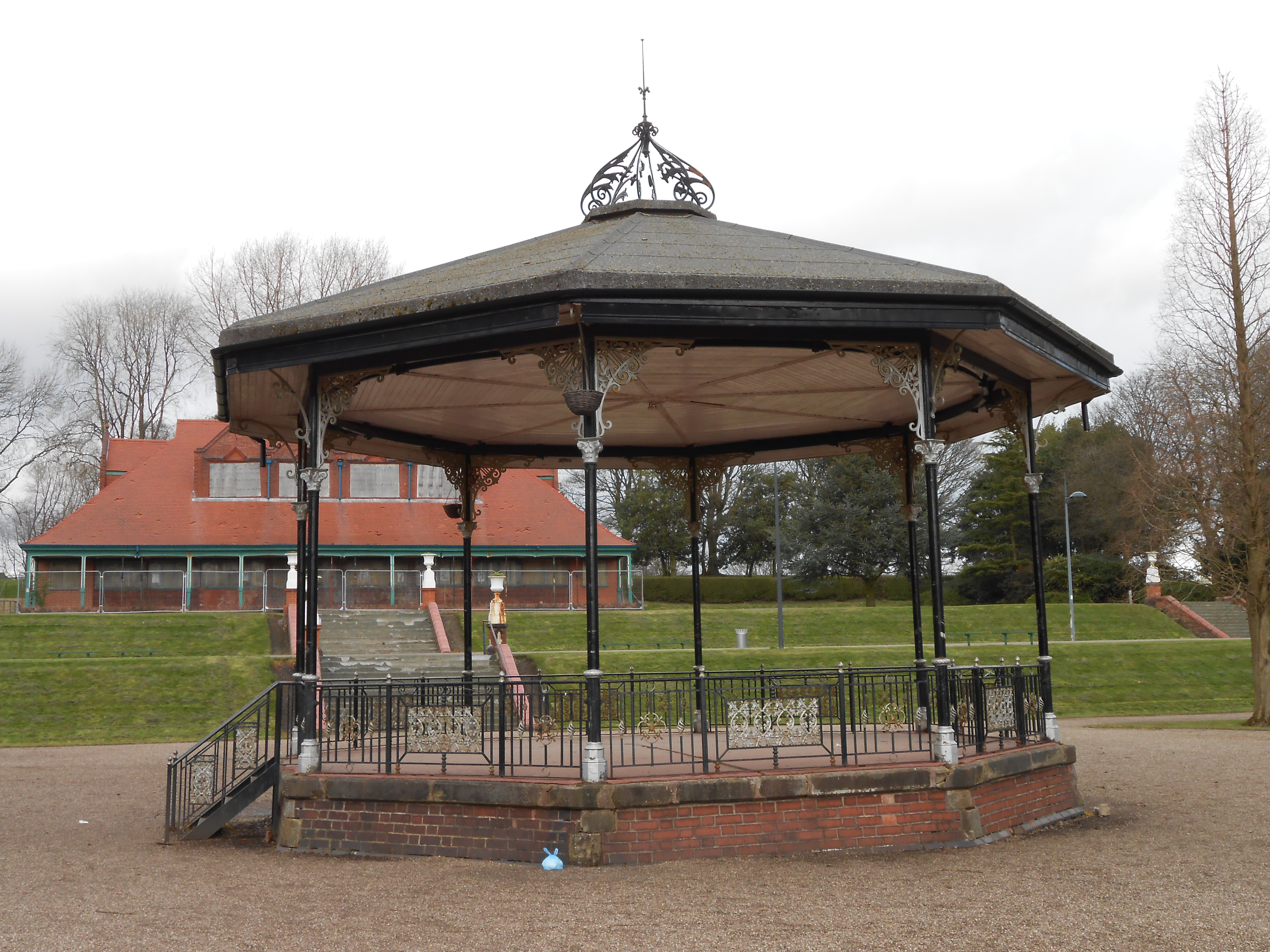 Photo taken in Hanley Park, Stoke-on-Trent, England.